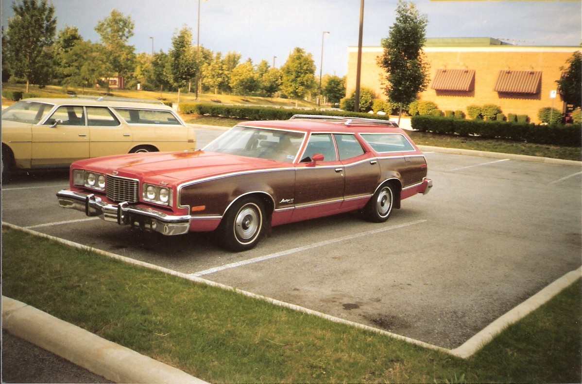 1974 Mercury Montego MX Villager station wagon I photographed at the first annual International Station Wagon Club convention in Columbus, Ohio in June 2004.